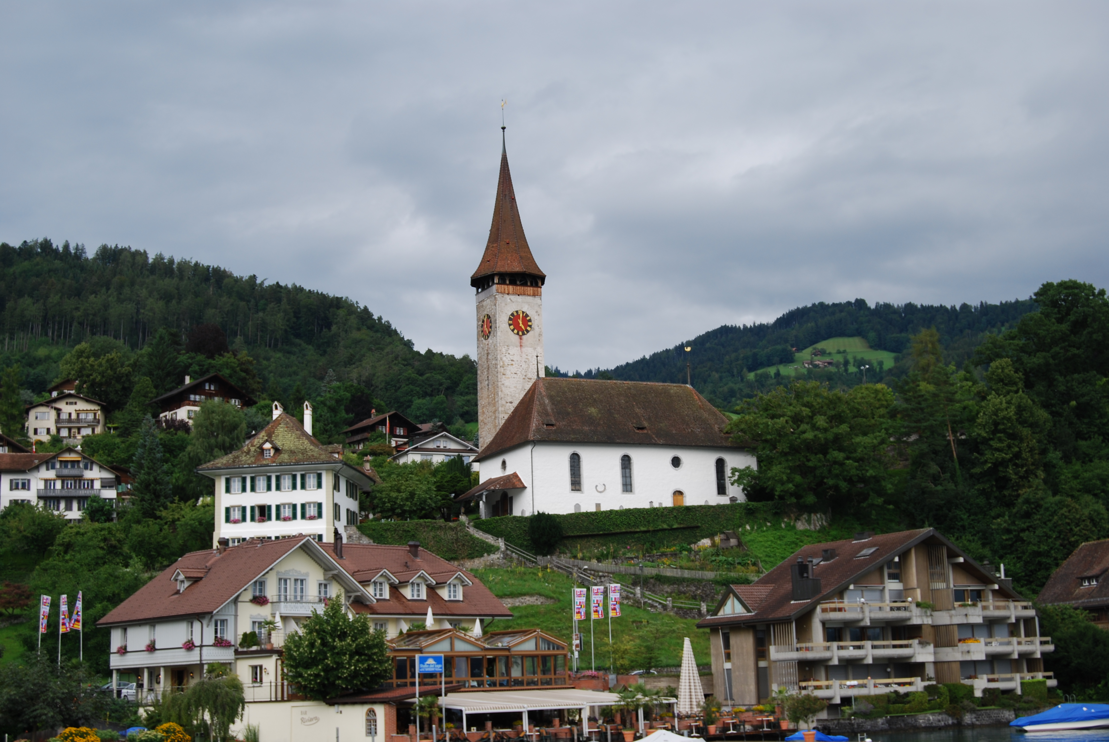 Church of Hilterfingen, canton of Bern, Switzerland